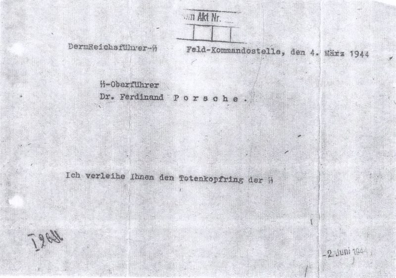 Bundesarchiv Ferdinand Porsche skull ring